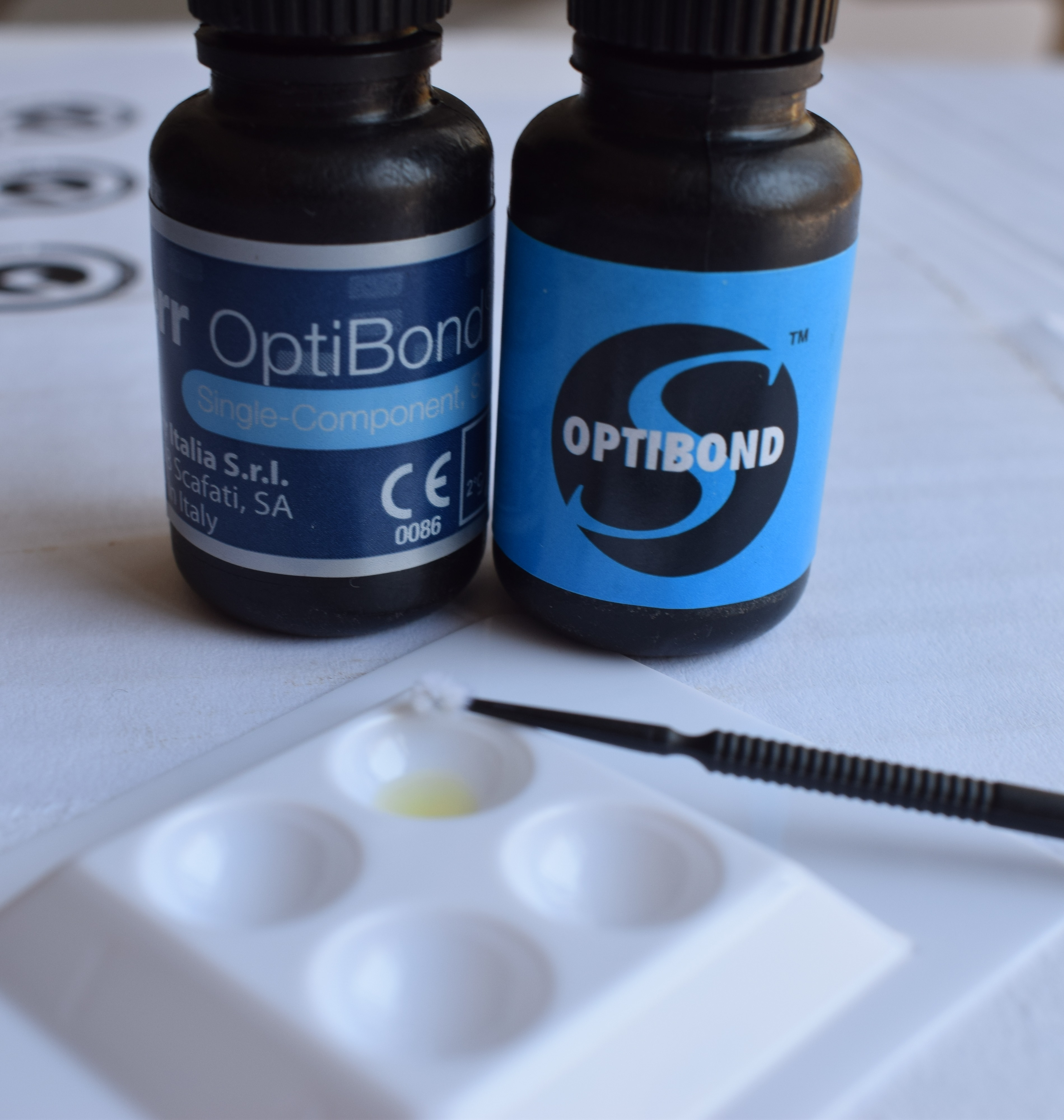 All in one self-etch adhesive and a single component universal adhesive, both provide adhesion for the direct and indirect dental procedures